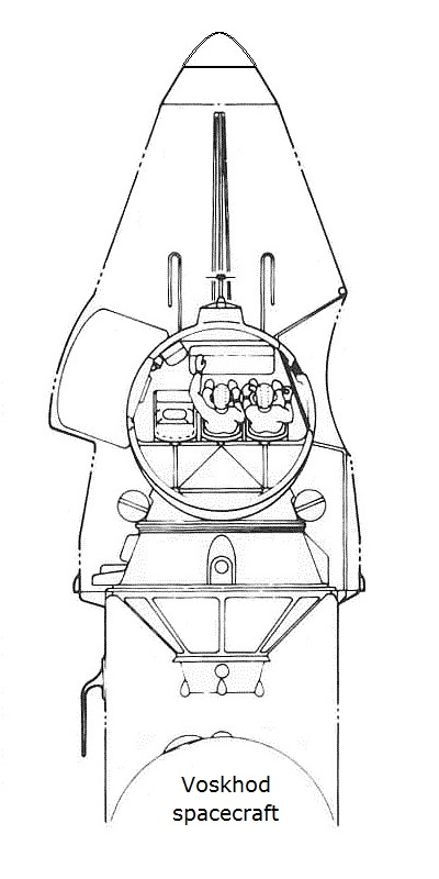 Voskhod spacecraft cutaway.